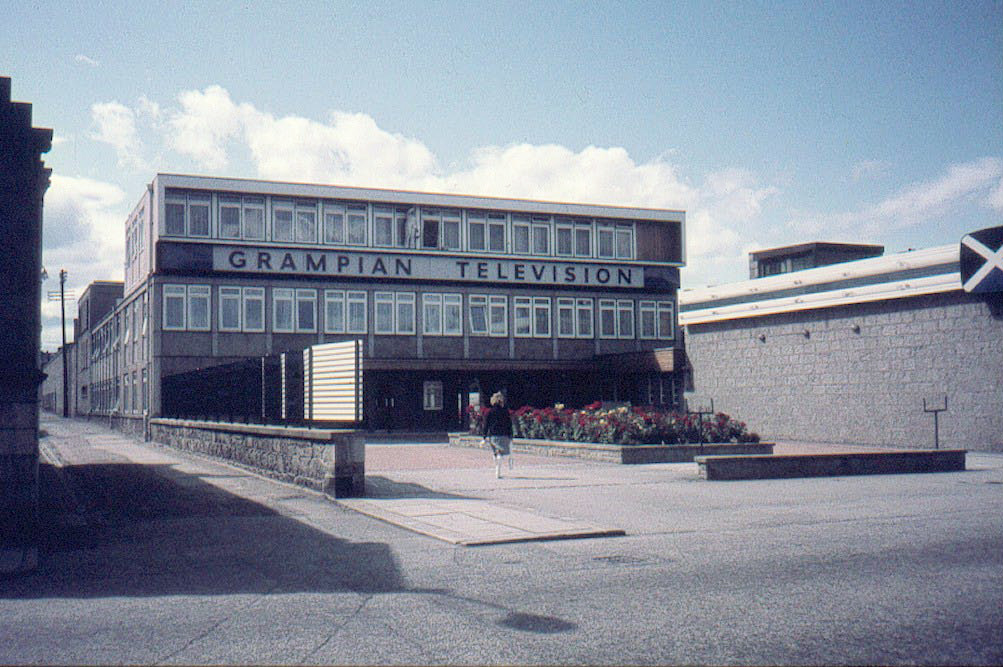 Grampian Television Studios - Queens Cross Now demolished and replaced by private housing, Grampian Television's studio centre near Queens Cross produced the nightly 'North Tonight' current affairs programme for many years, before moving to an industrial unit at Tullos. Grampian lost its identity in 2006 when it was subsumed into the transmission area of Scottish Television, after 44 years of doing their own 'thing'.